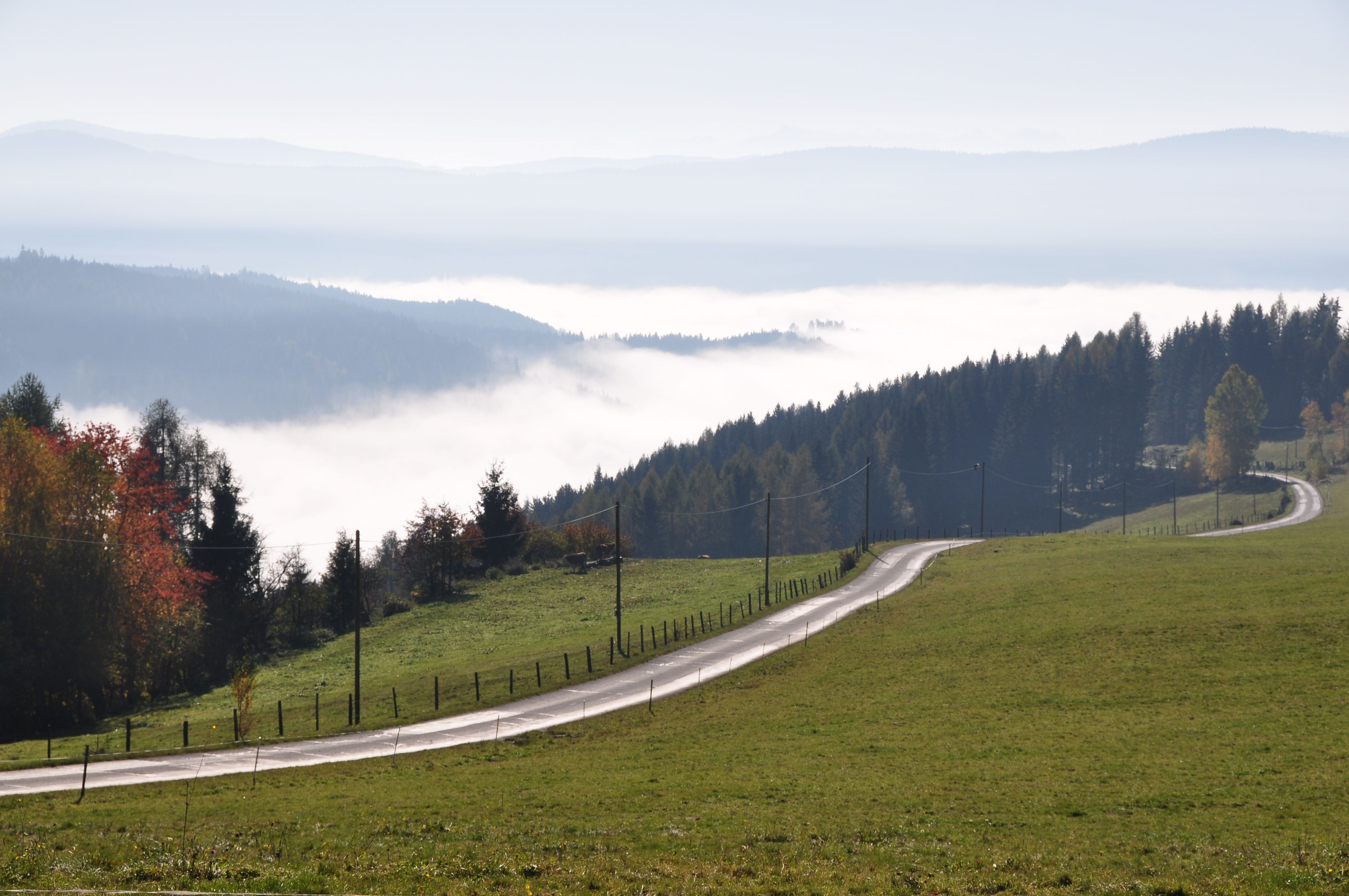 View at the Gurktal and the Wimitzer Berge from Ading, municipality Weitensfeld im Gurktal, district Sankt Veit an der Glan, Carinthia / Austria / EU